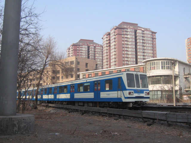 Back in 2006, the DK8/DK16s were still main forces of Line 2. This T102 train, originally a DK8 numbered 404 or so, was seen going back to Taipinghu Depot. Taipinghu, literally "Peace Lake", was indeed a lake in the 1960s, where Lao She, a Chinese writer, took his own life on Aug 24, 1966.